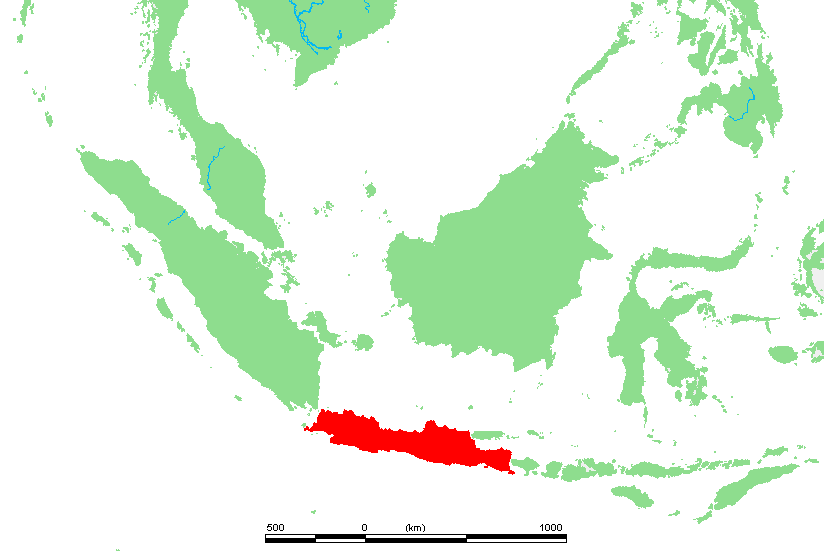 Location of Java